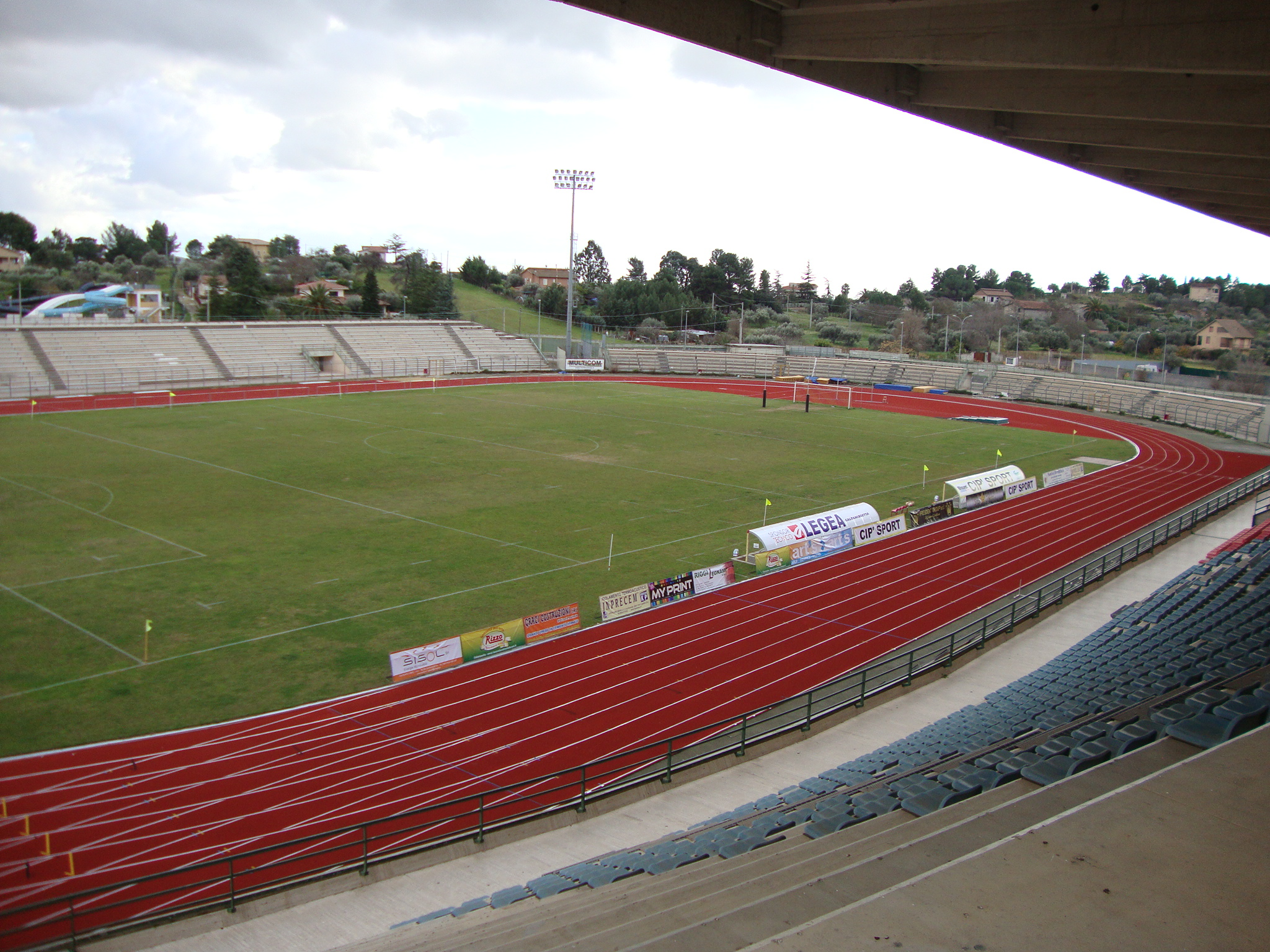 A wiew of the field of the "M. Tomaselli" stadium from the stand